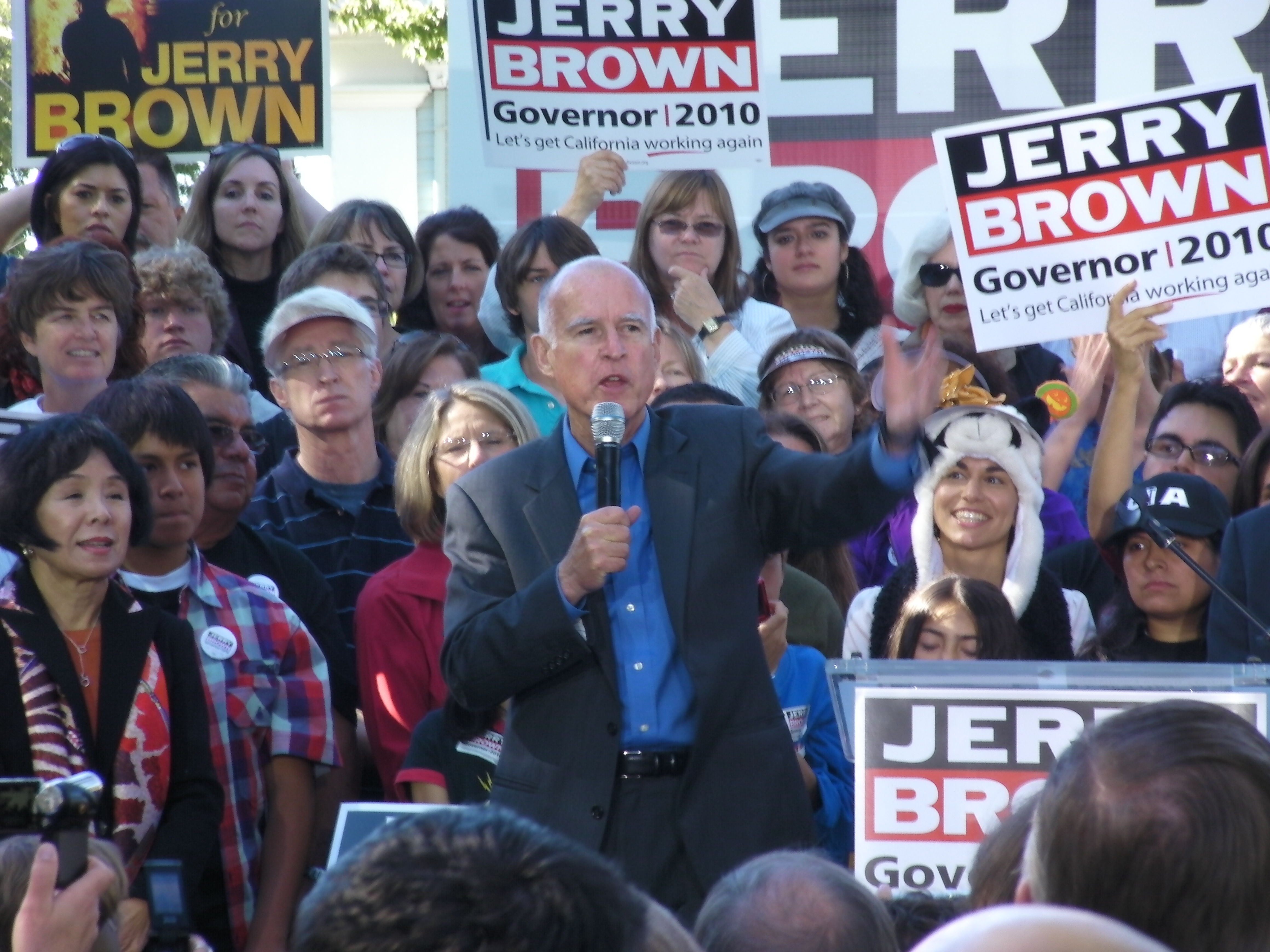 Governor Jerry Brown at an Oct 31 Rally in Sacramento California.